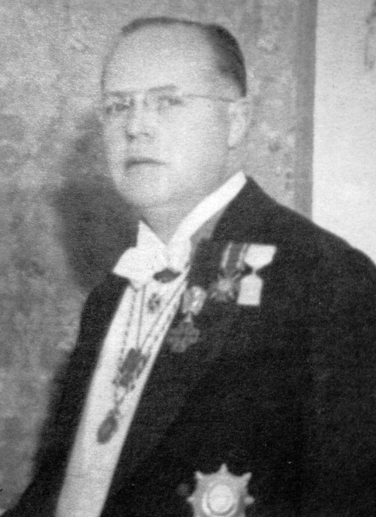 Ricardo Lancaster-Jones y Verea MA BE KHS (1905-83). The photograph was taken in 1953 by Ricardo's father, Alberto Lancaster-Jones y Mijares.